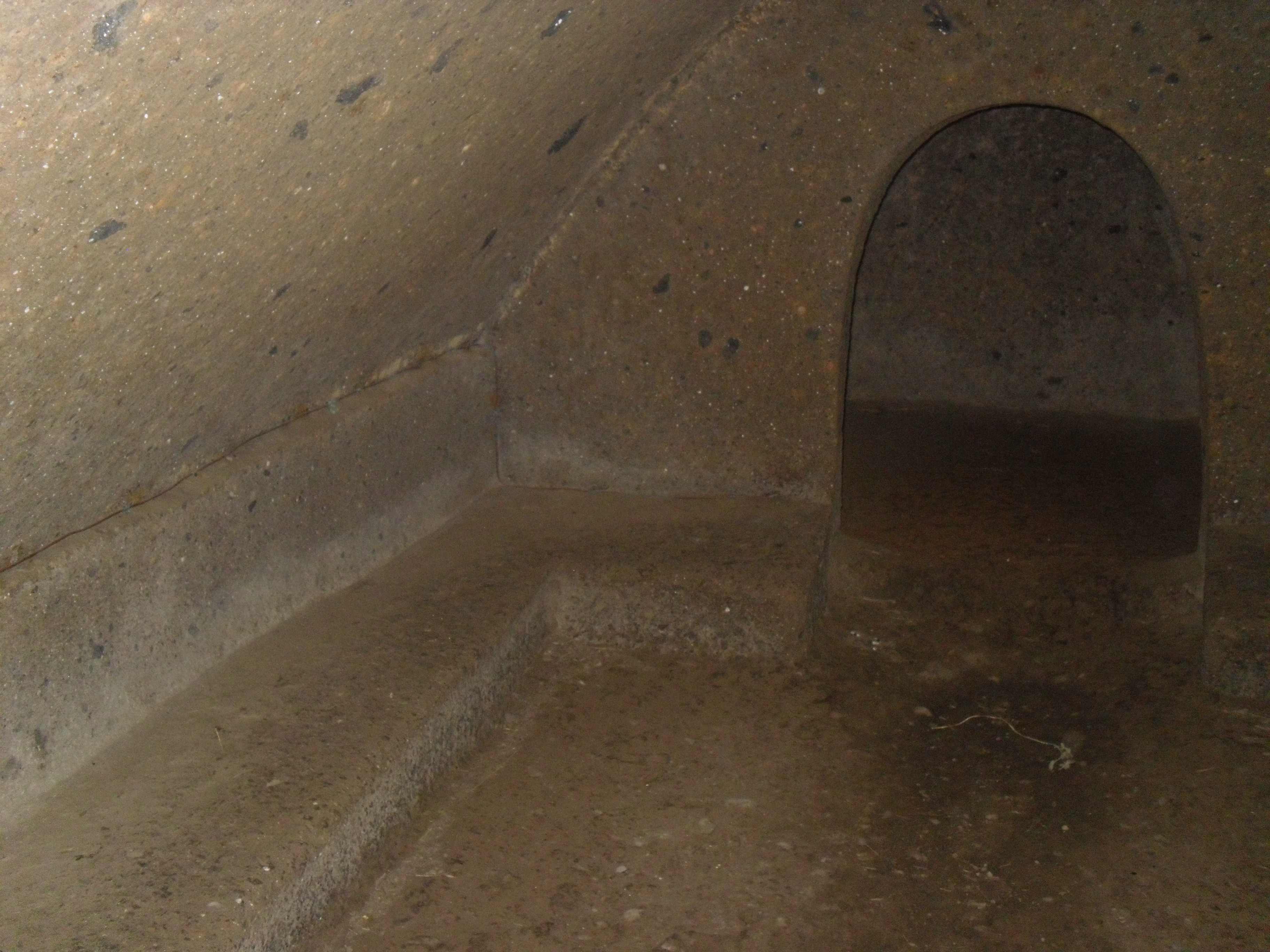 The inside of "Tomba della capanna", an ancient Etruscan tomb in the necropolis of Banditaccia